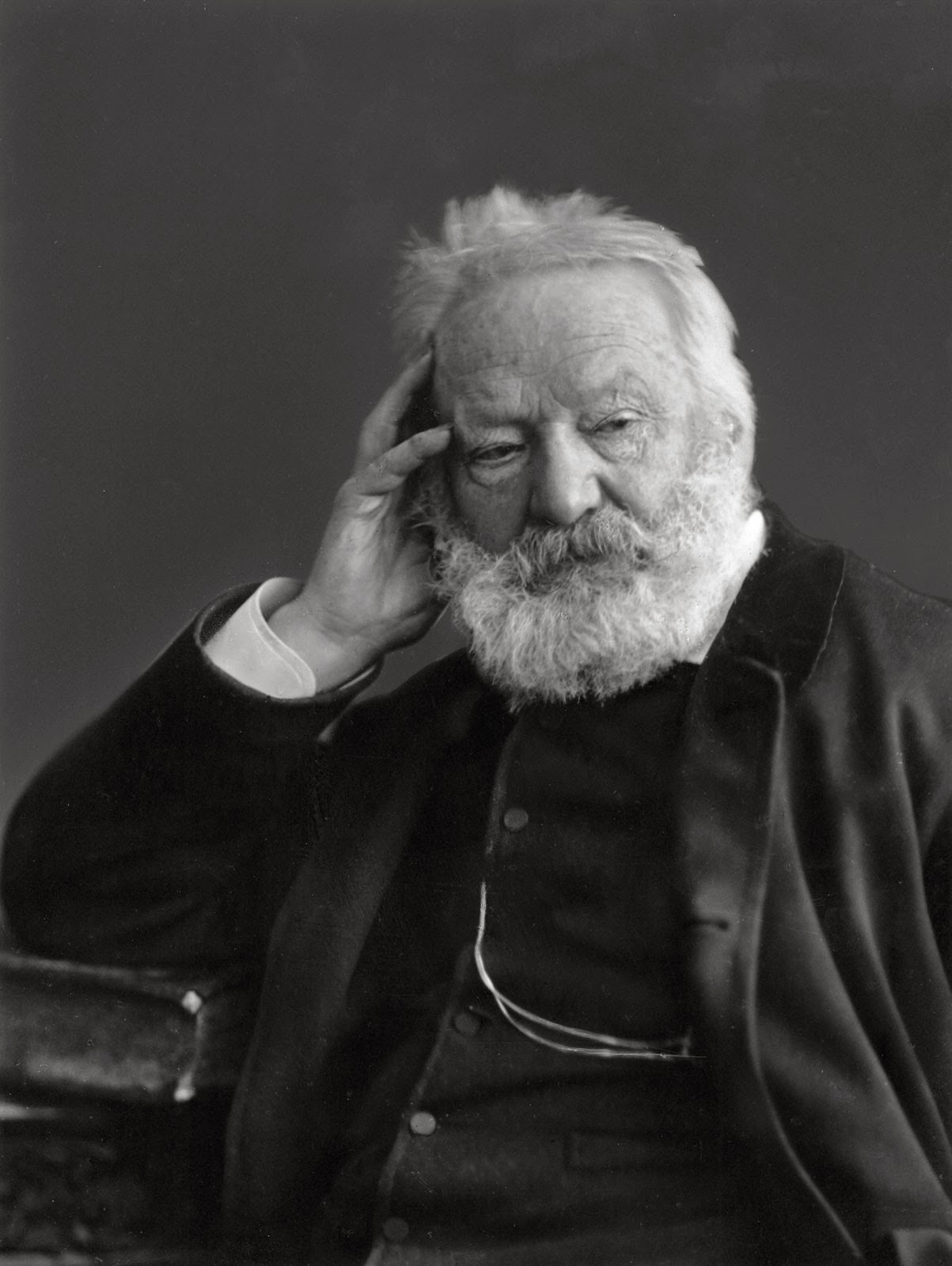 Victor Hugo